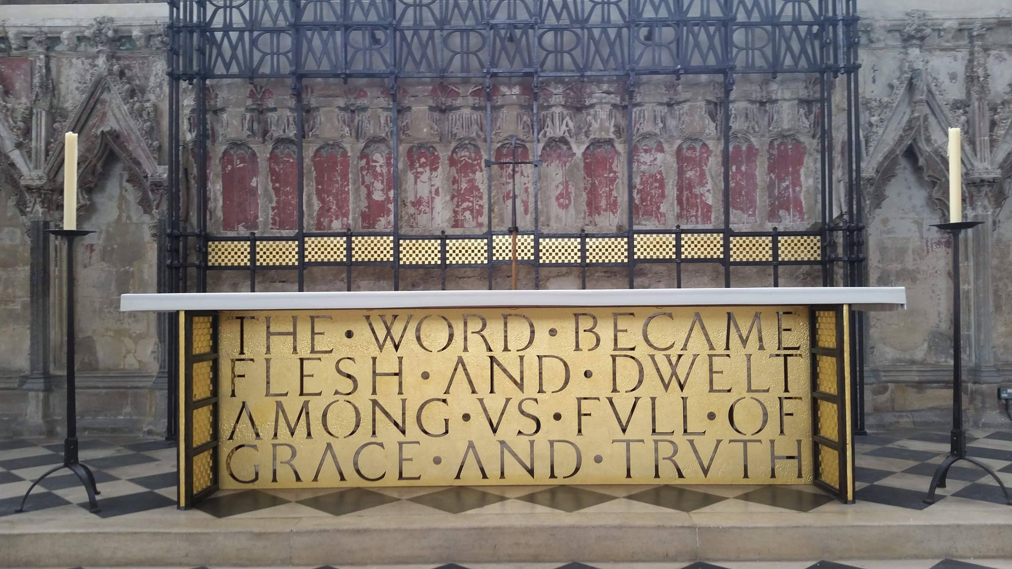 Altar of Lady Chapel Ely Cathedral October 2017